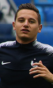 French footballer Florian Thauvin on 9 July 2018.